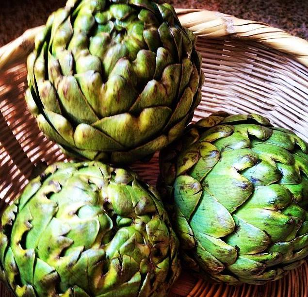 artichokes